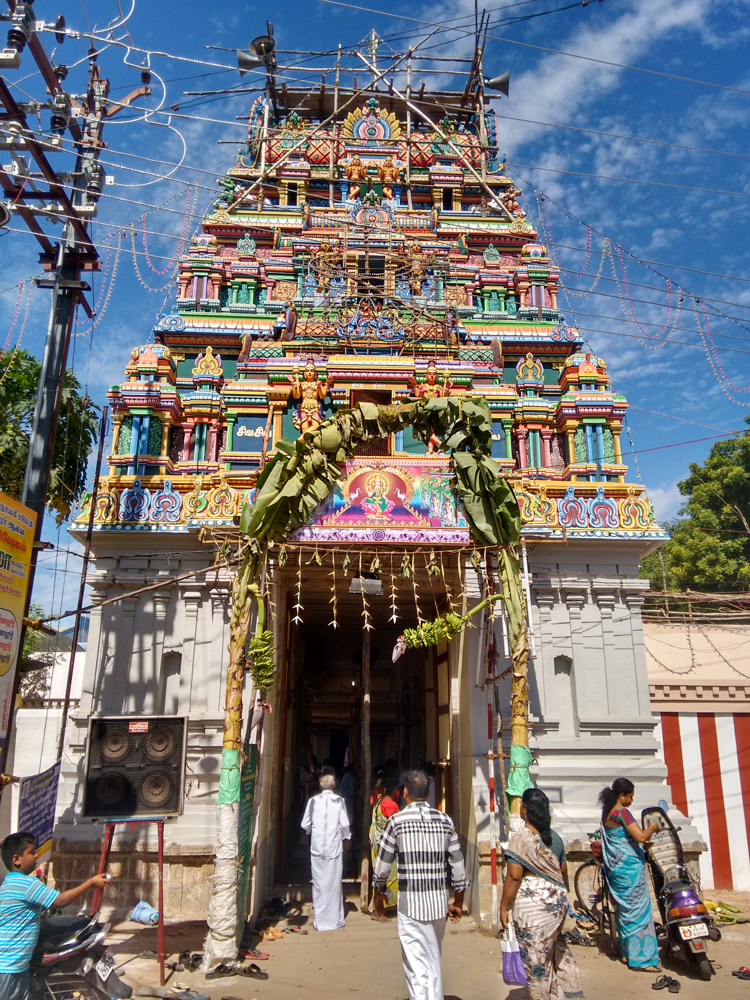 Gowthameswarar temple1 கும்பகோணம் கௌதமேஸ்வரர் கோயில்